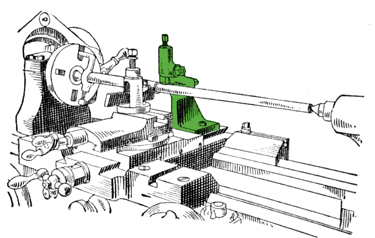 A line drawing showing a typical setup on a bench lathe or engine lathe in which a long, slender workpiece is supported by a follower rest. Follower rests are also called "travelling steadies". (The color highlighting was added on to the original drawing for better pedagogy—easier to differentiate the follower rest from all the other parts of the lathe.)